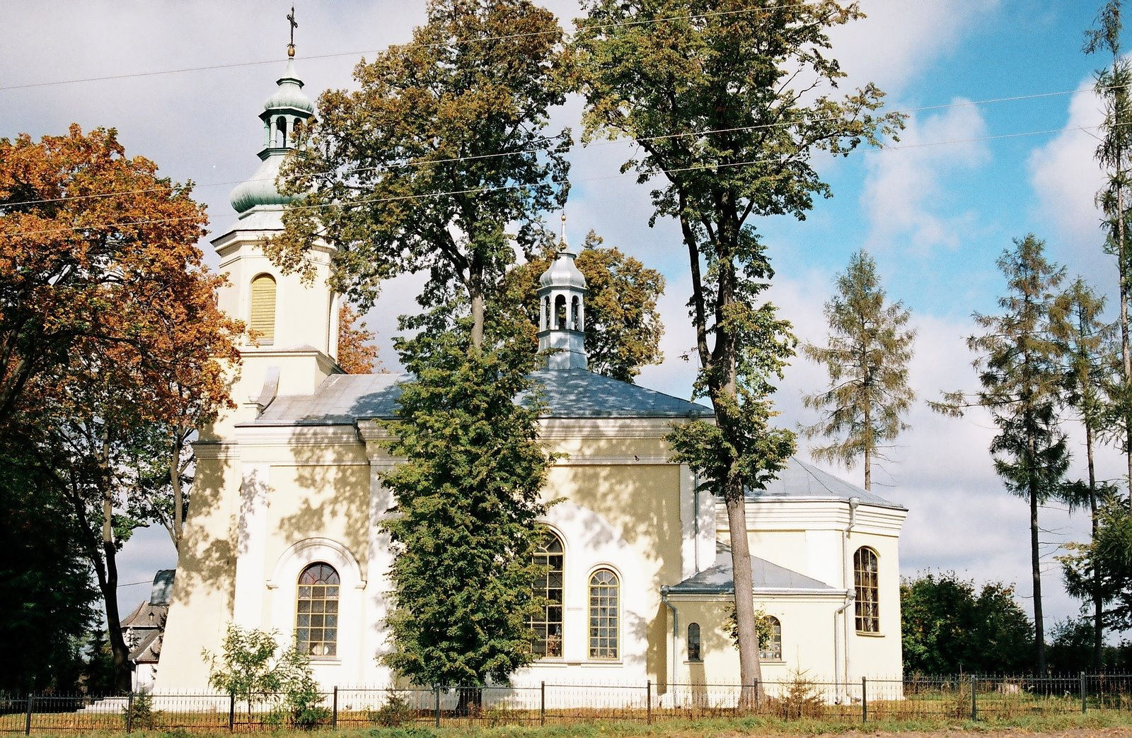 Saints Peter and Paul Catholic Church (Tarnawatka, Lublin Voivodeship, Poland), former Orthodox Church